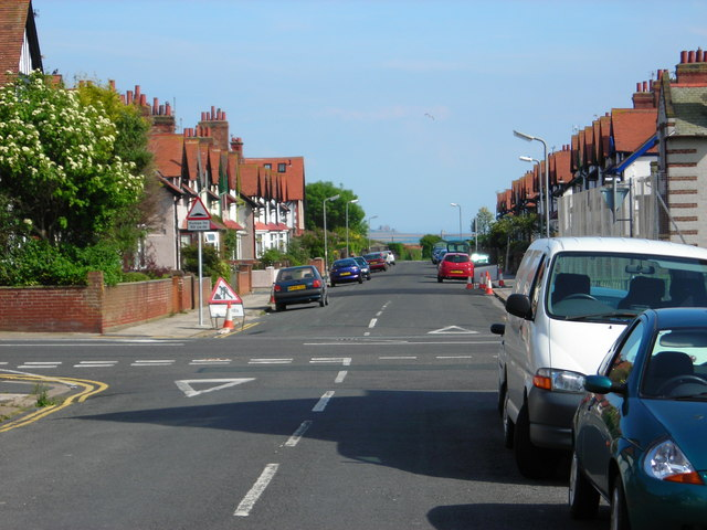 Mikasa Street, Vickerstown, Walney Island, Barrow-in-Furness, Cumbria, England, UK.